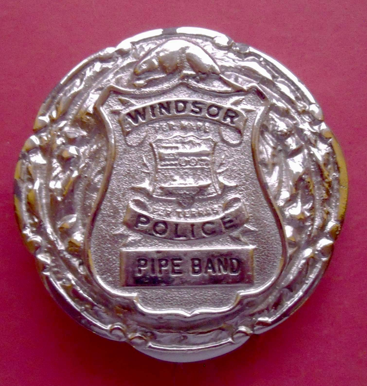 This is best described as a "muckle thing" - it is a lovely item but is huge and heavy. It has a large (heavy duty) brooch fixing as its purpose is to hold the piper's tartan plaid in place at the shoulder.